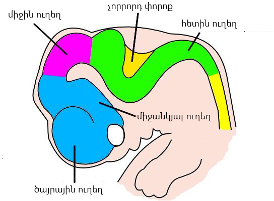 Diagram of the various parts of the brain of a six-week old embryo in Armenian.